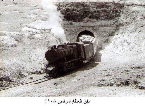 Al-Attara